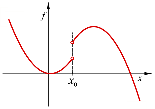 Function with discontinuity